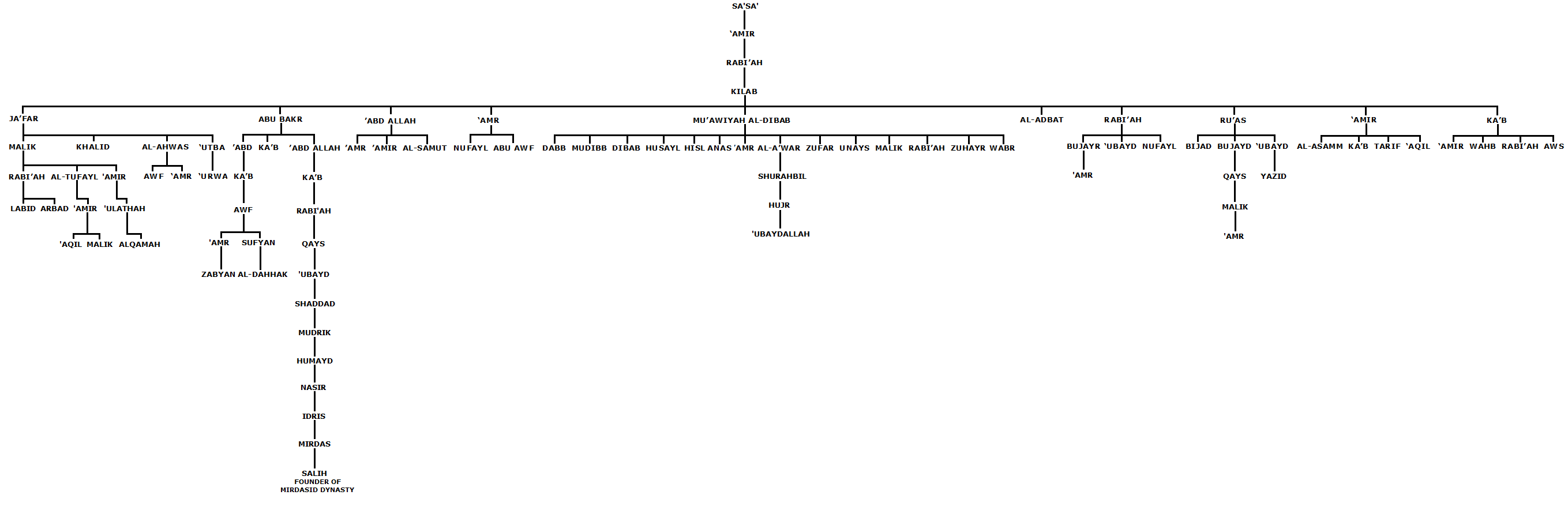 Genealogy of Banu Kilab